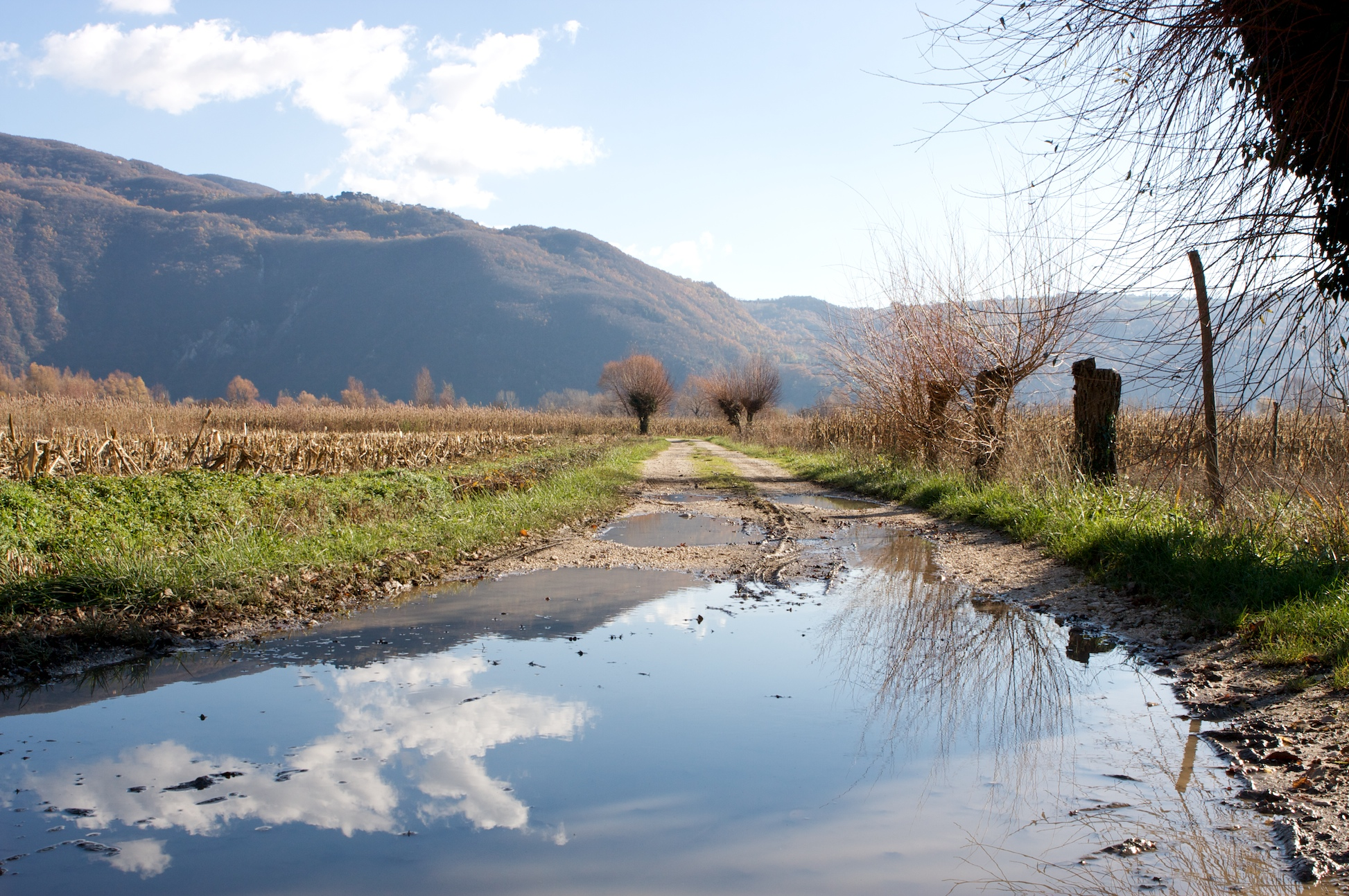 Near S.Vittorino's Church - Cotilia, Cittaducale (Lazio, Italy)